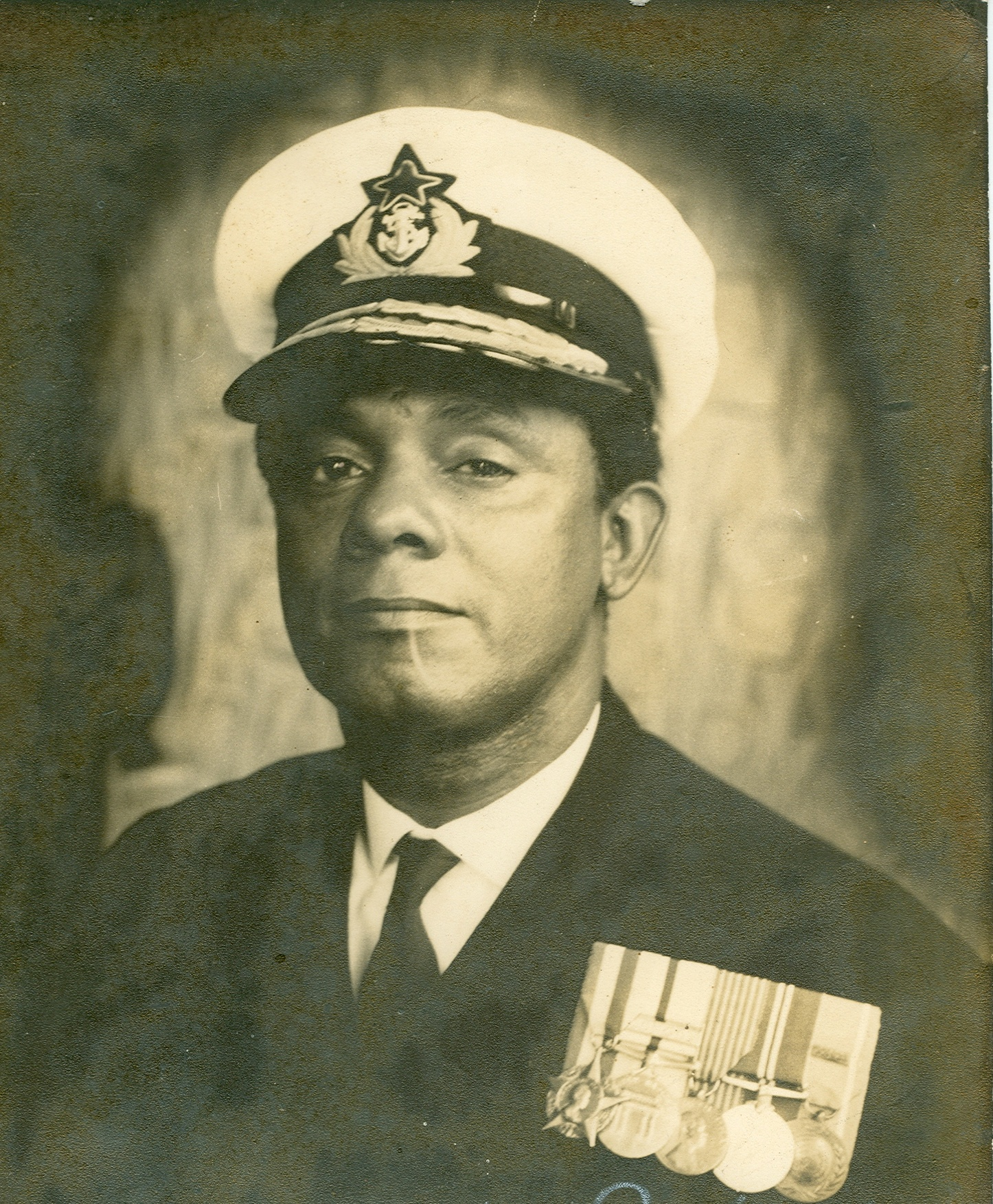 Potrait of Rear Admiral David Animle Hansen